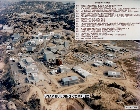 The Systems for Auxiliary Nuclear Power (SNAP) building complex located at the Santa Susana Field Laboratory in January, 1964.